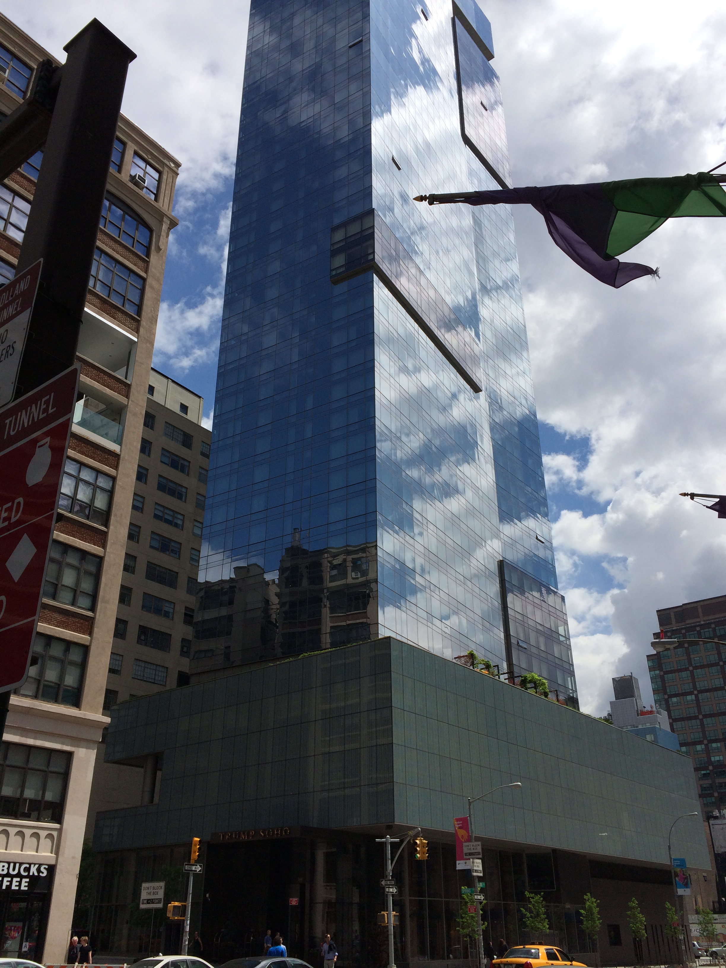 Trump Soho apartment building